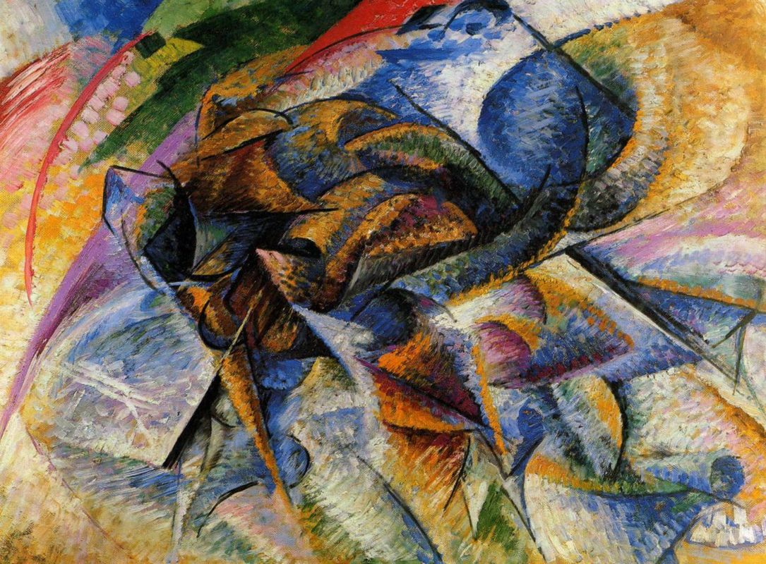 Dynamism of a Biker (1913) by Umberto Boccioni, also called "The Cyclist" Painting, oil on canvas, 70 x 95 cm, Peggy Guggenheim Collection